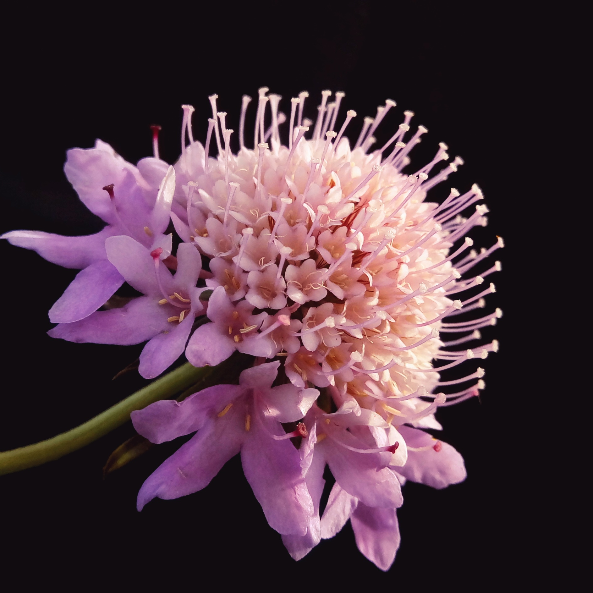 Scabiosa atropurpurea maritima is an ornamental plant of genus Scabiosa in the family Caprifoliaceae